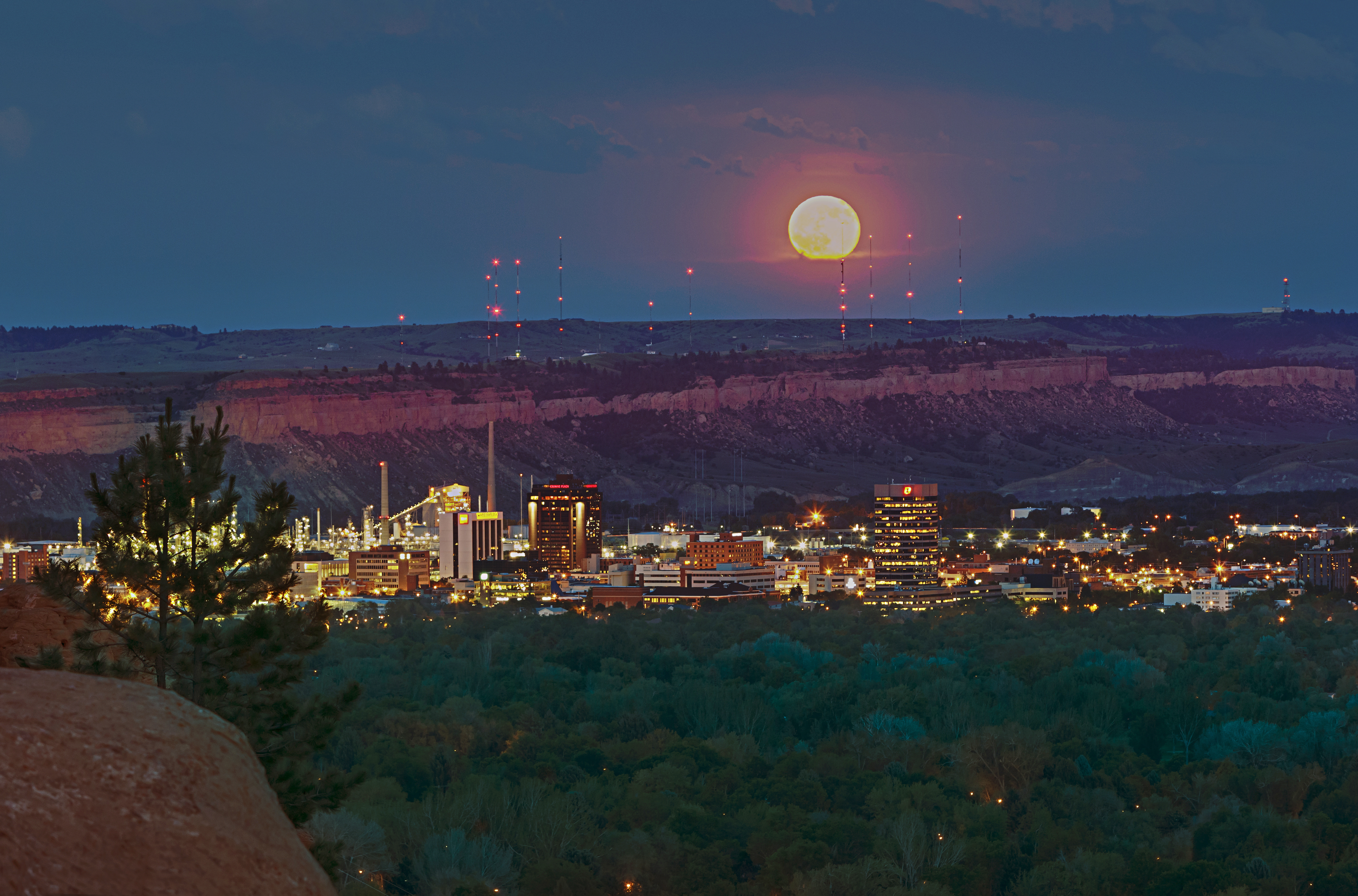 Billings Montana full moon taken from Zimmerman Park